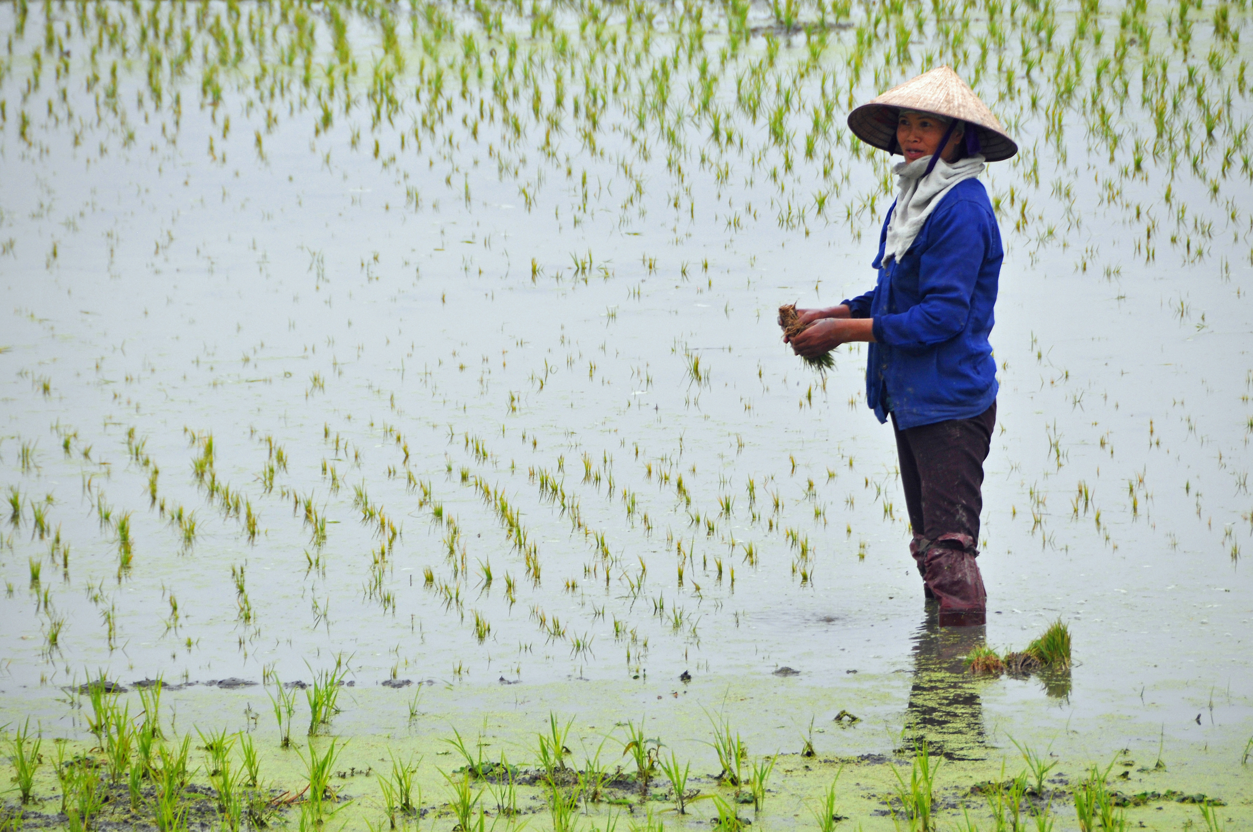 Paddy field in Vietnam.